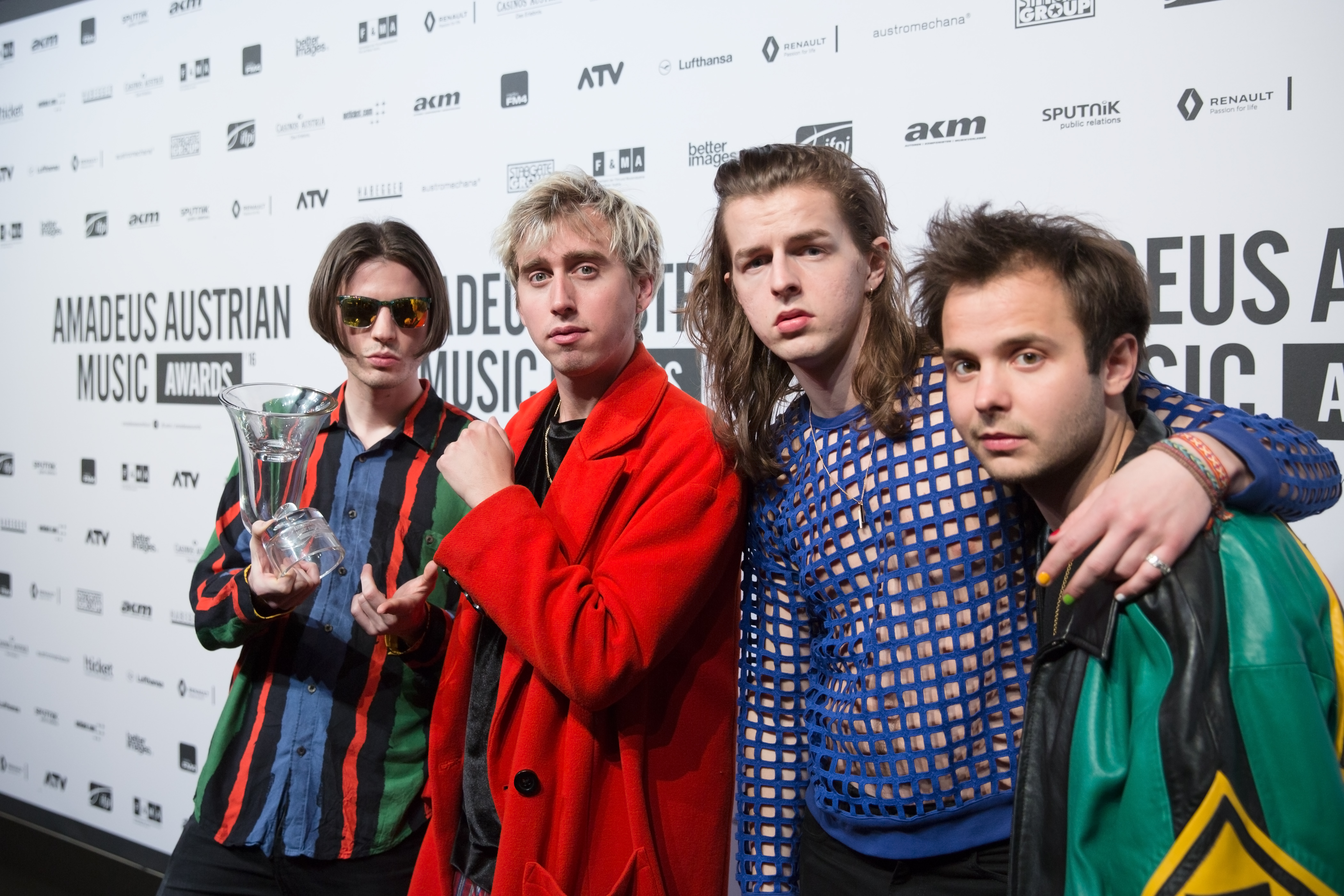 Bilderbuch at the Amadeus Austrian Music Award 2015 at Volkstheater in Vienna